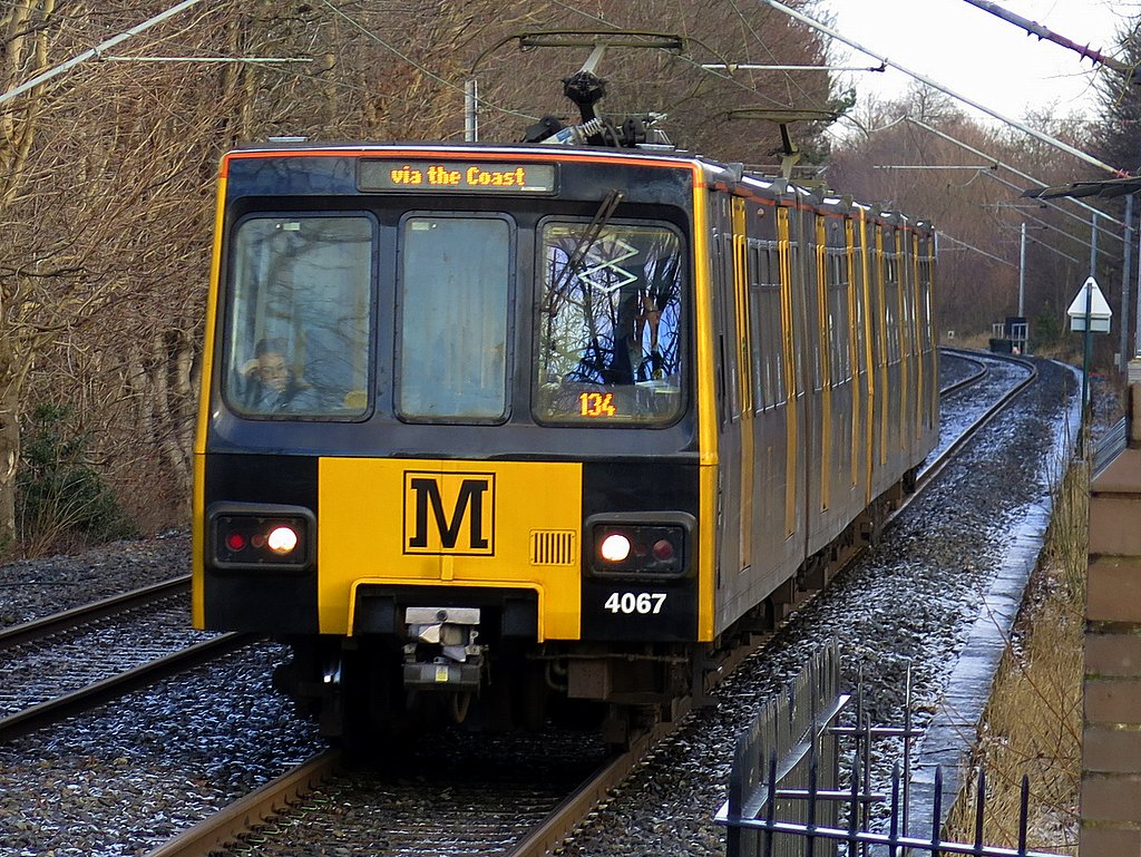 Metro train approaching Meadow Well Station "Metro increasingly adopted the black 'M' as its logo, and it soon came to adorn the front and sides of the Metrocars. The Calvert typeface, and in particular the black 'M' on yellow background, became as locally distinctive markers of the Metro as the London Underground roundel is for Londoners. Outside Metro stations, you’ll now find totems with a yellow box at the top, each vertical side displaying a Calvert 'M'